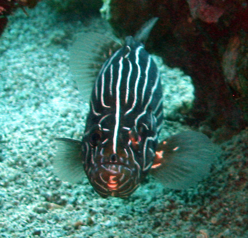 sixline soapfish Taba